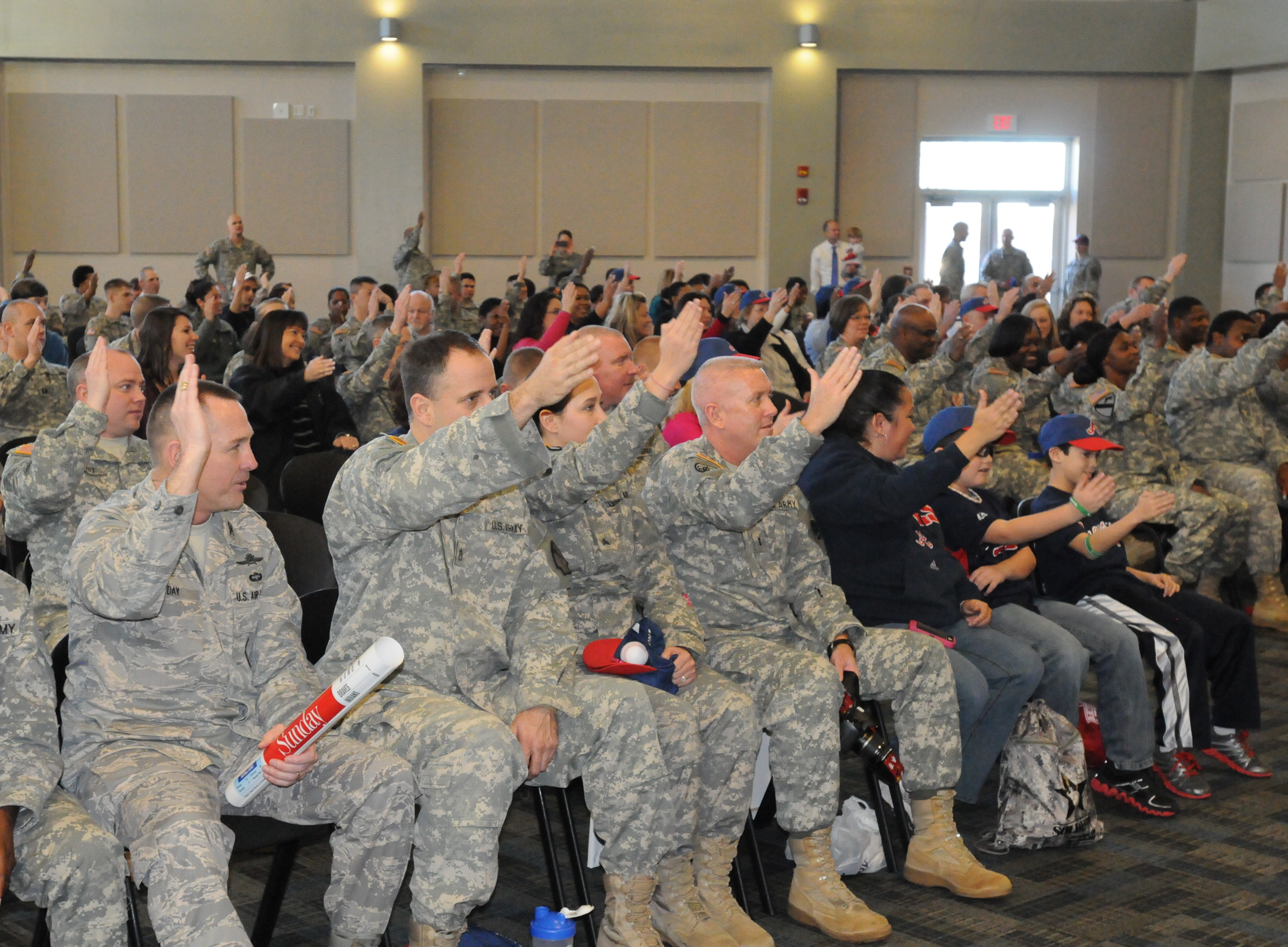 Georgia National Guardsmen doing the tomahawk chop to commemorate a visit to Clay National Guard Center by the Atlanta Braves in 2013.